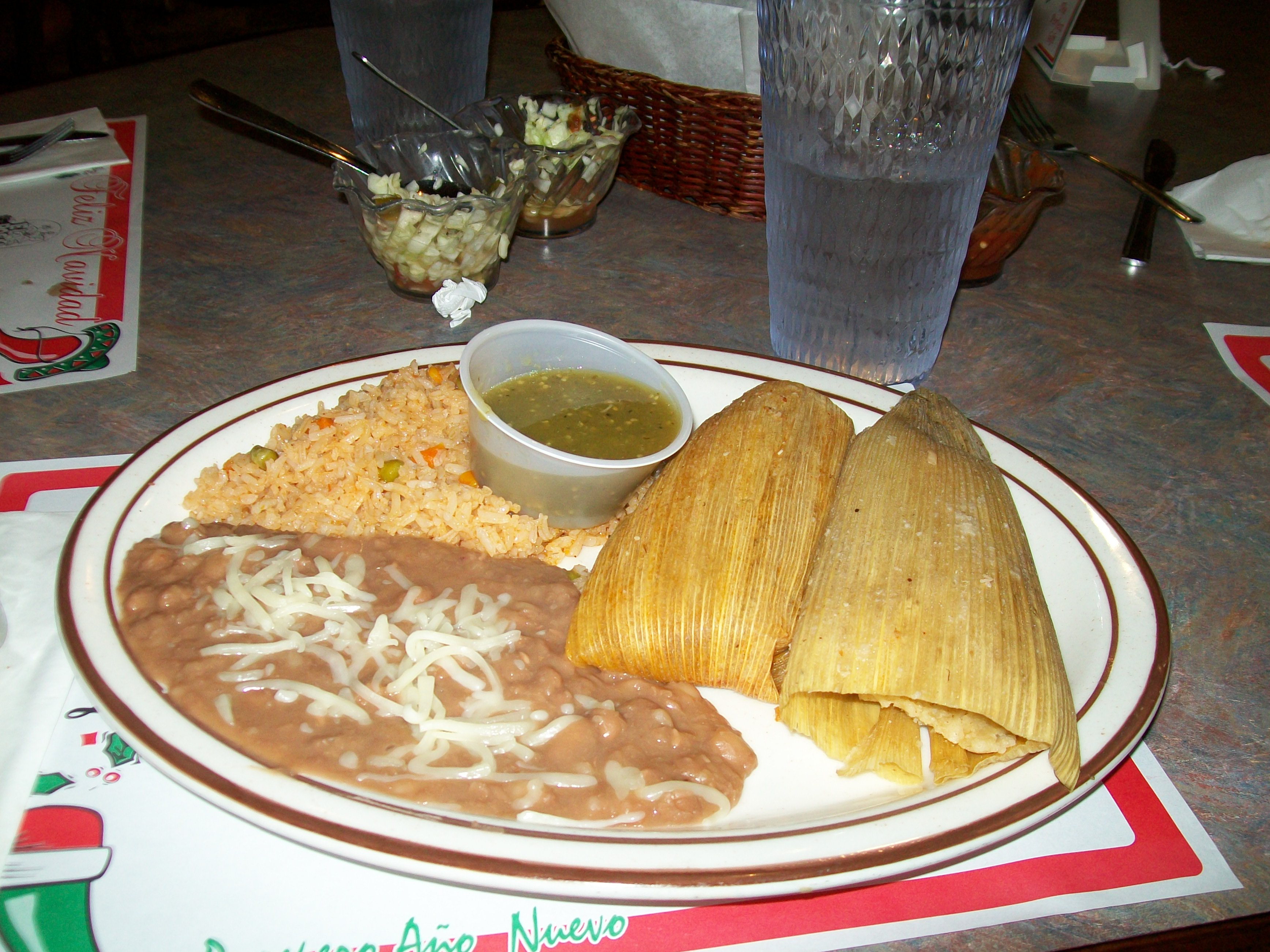 Two tamales, with beans and rice, at a restaurant in Turlock, California